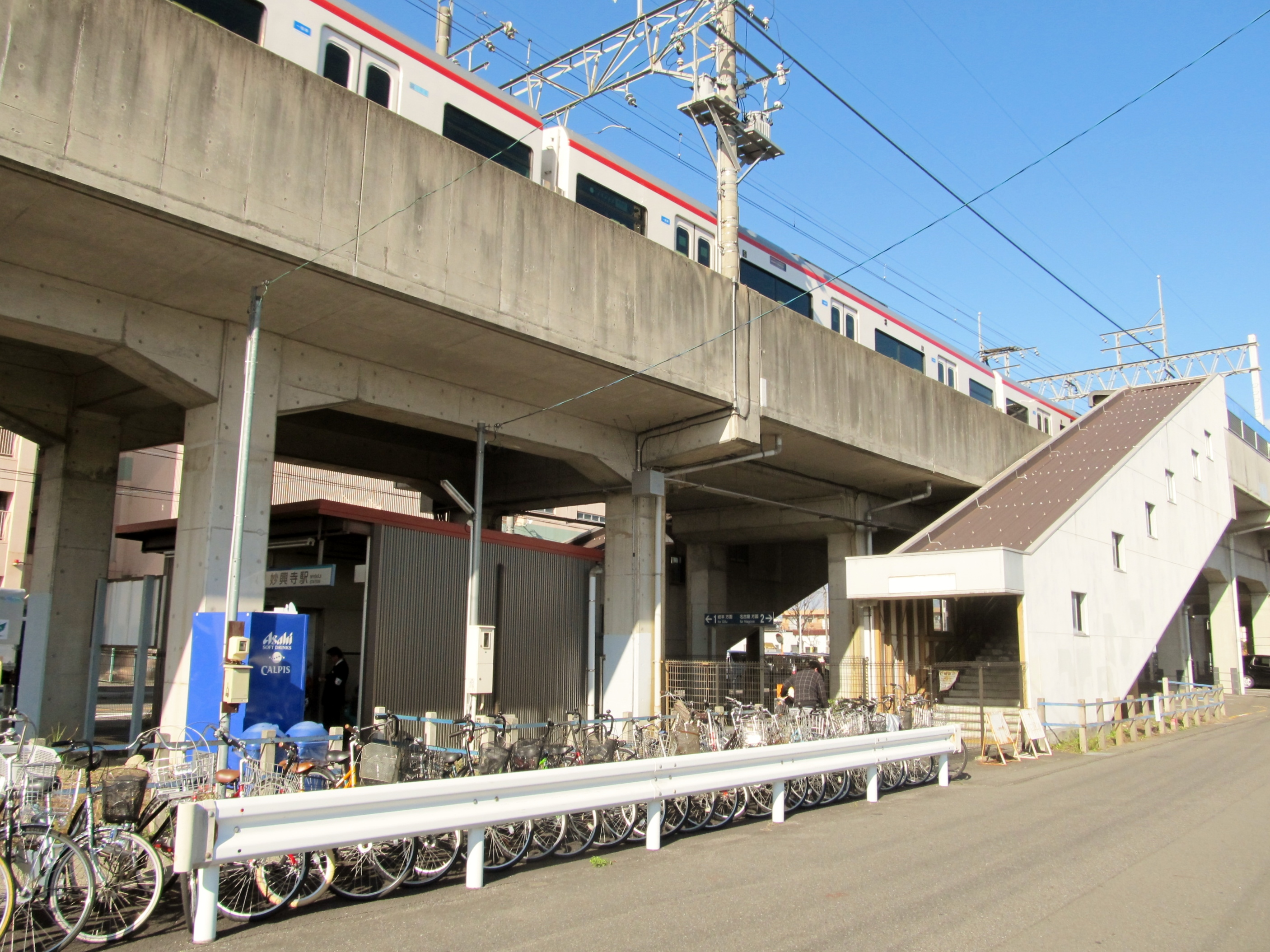 Nagoya Railroad Nagoya Main Line Myōkōji Station South Gate